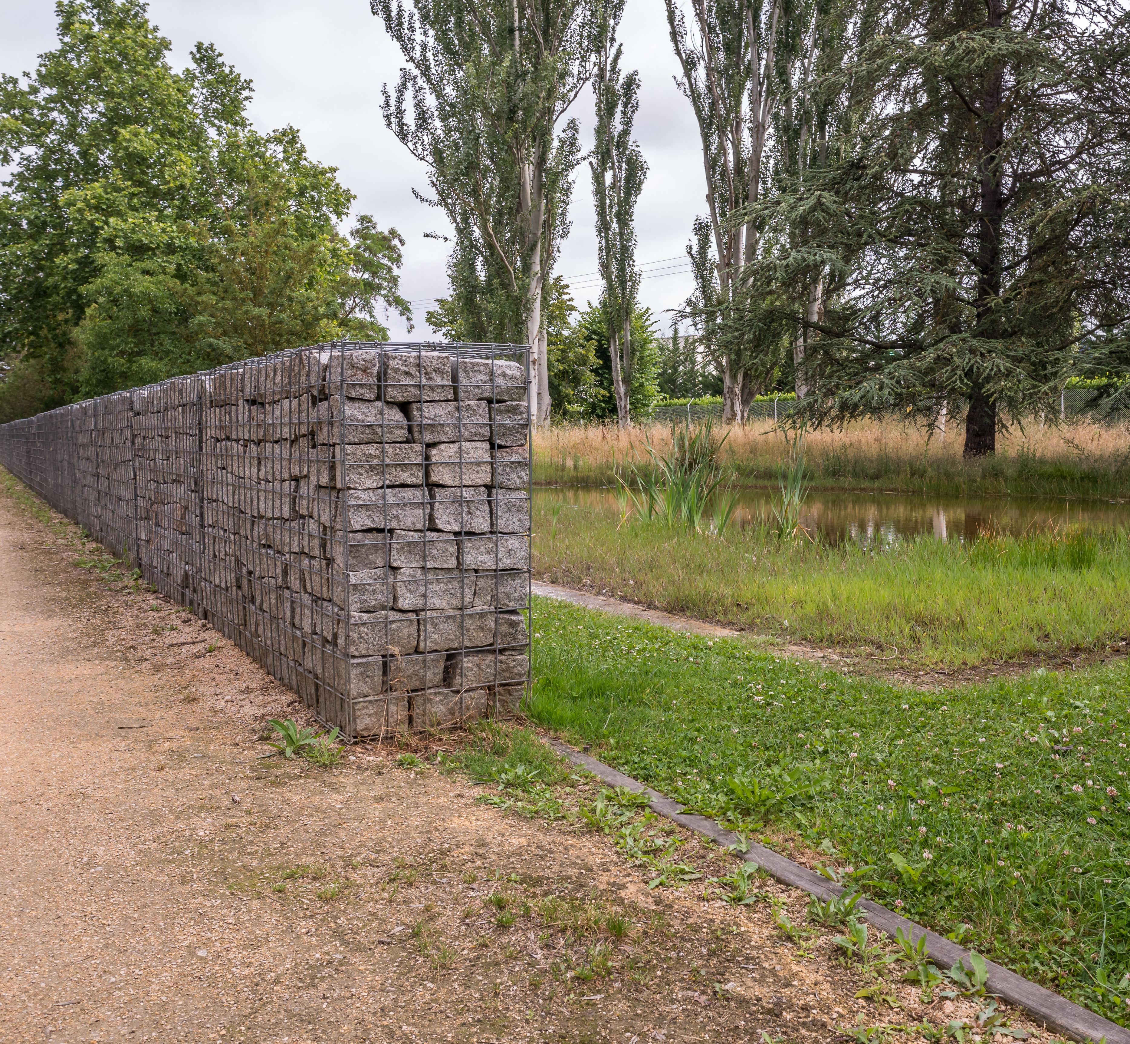 Granite gabion in the Biodiversity Park of Arriaga. Vitoria-Gasteiz, Basque Country, Spain